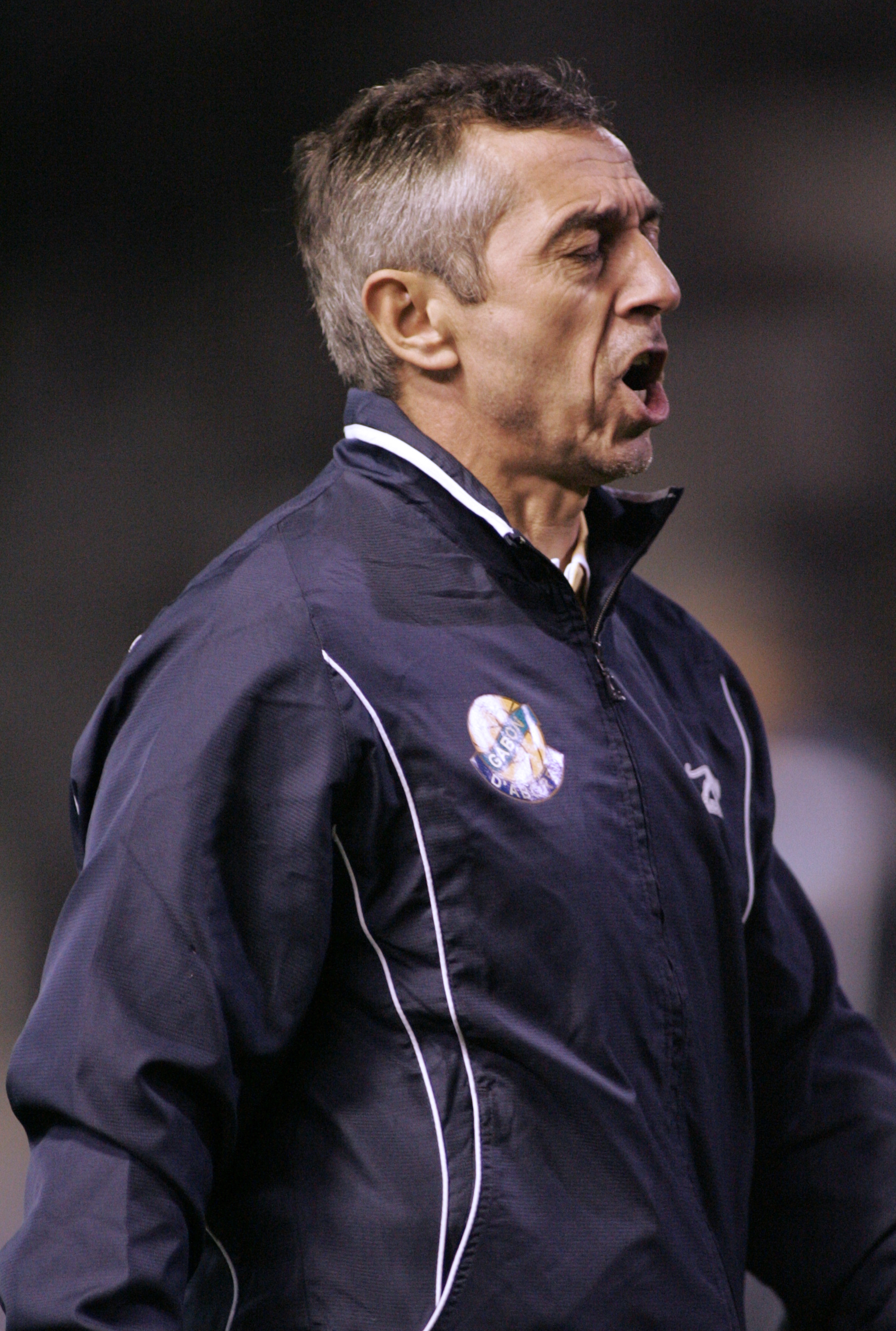 Alain Giresse, trainer of the football national team of Gabon on March 28, 2009. Gabon won the match against Morocco with 2-1